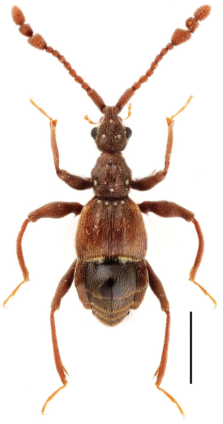 Male habitus of Labomimus simplicipalpus. Scale: 1.0 mm.